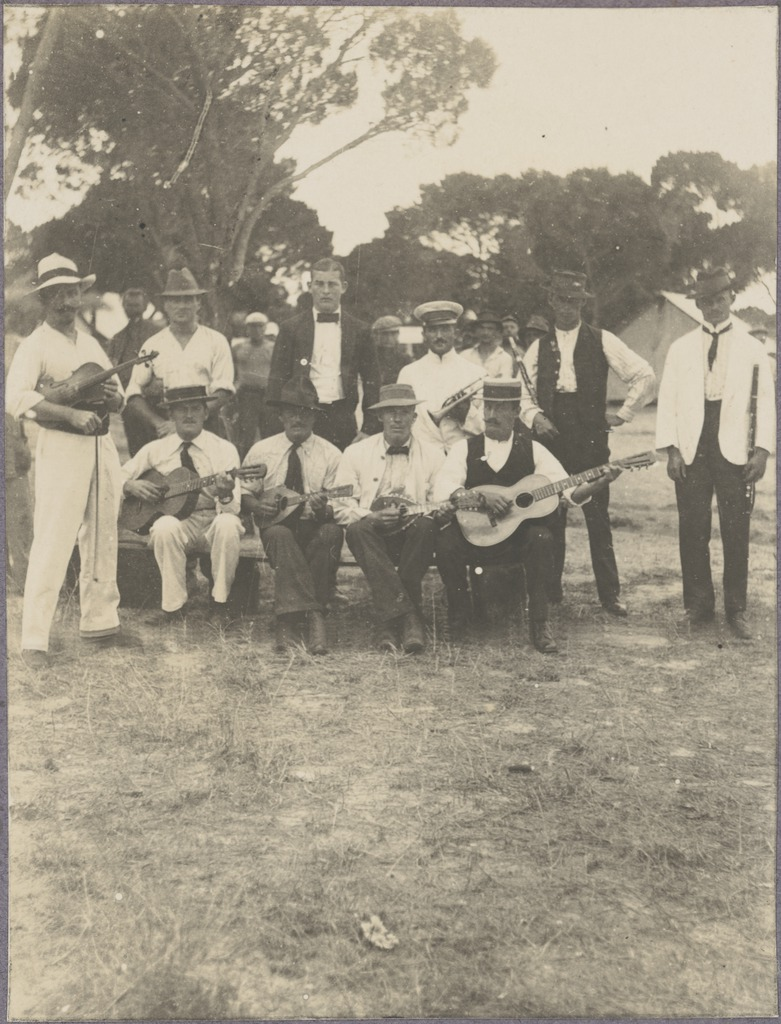 Lehmann, Karl, b. 1886 Title devised by cataloguer based on the inscription.; In album: German Concentration Camp Australia, album of internment camps on Rottnest Island, Western Australia and at Trial Bay and Holsworthy, New South Wales, 1914-1918.; Inscriptions: "Die Lagerkapelle"--In ink below image.; Condition: Yellowing.; Also available in an electronic version via the Internet at: .au/nla.pic-vn4703393-s12-a2. Persistent URL .au/nla.pic-vn4703393-s12-a2